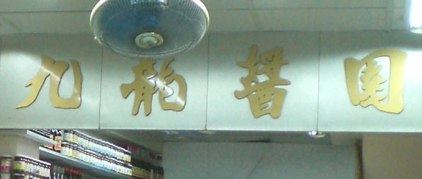 九龍醬園, 中環嘉咸街9號地鋪